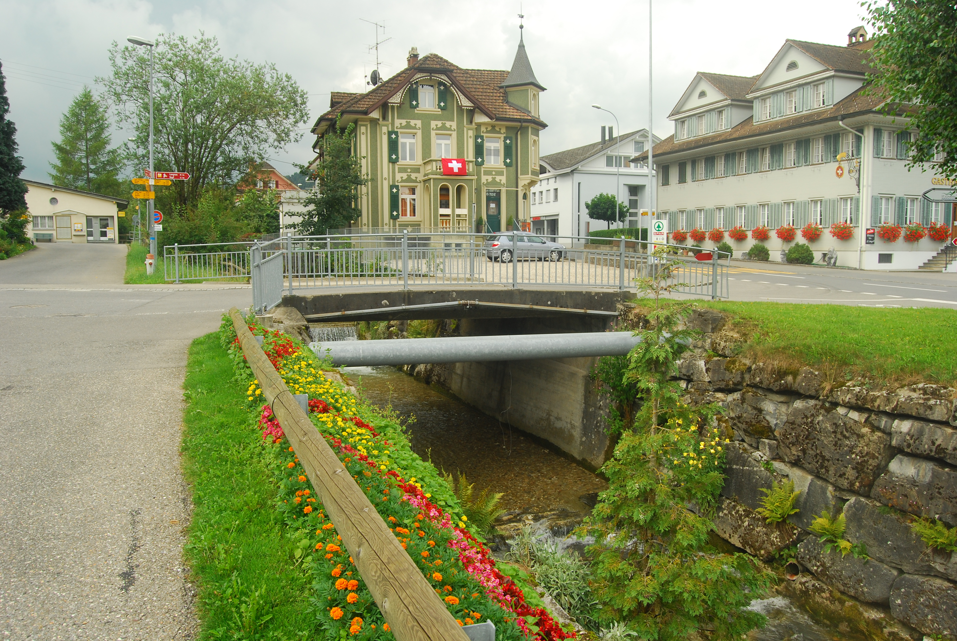 Enziwigger at Hergiswil bei Willisau, canton of Lucerne, Switzerland